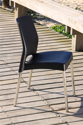 Stainless steel chair in Recreio Beach. Candy-Land - Blood On The Dance Floor SGTC RULES!!!.